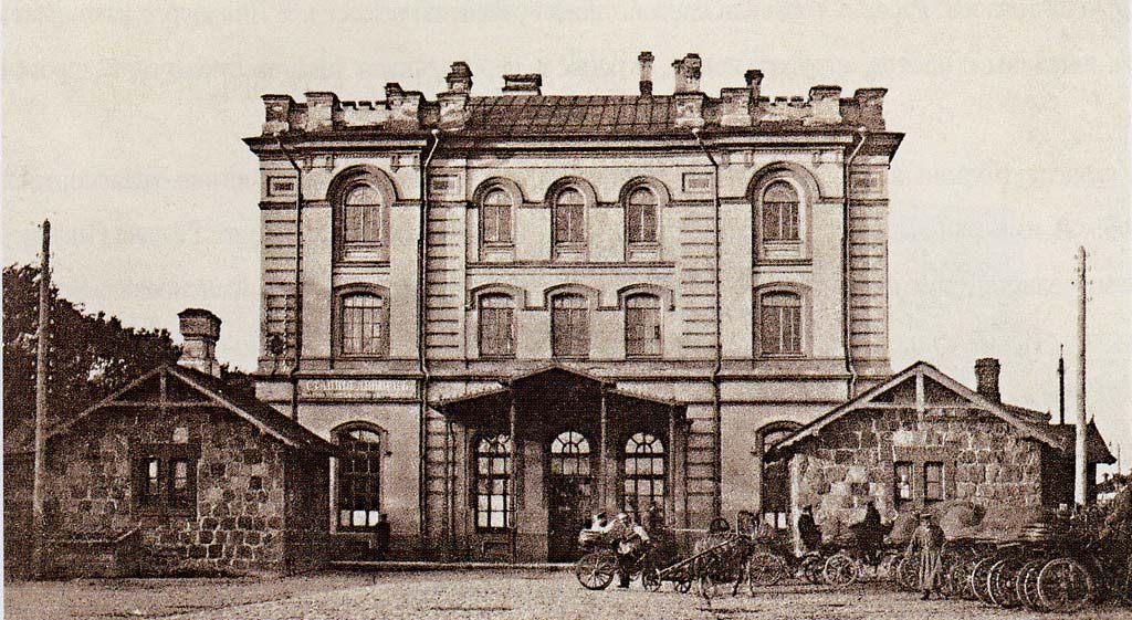 Daugavpils (before 1893 – Dinaburg, before 1920 – Dvinsk) St. Petersburg–Warsaw Railway Station.